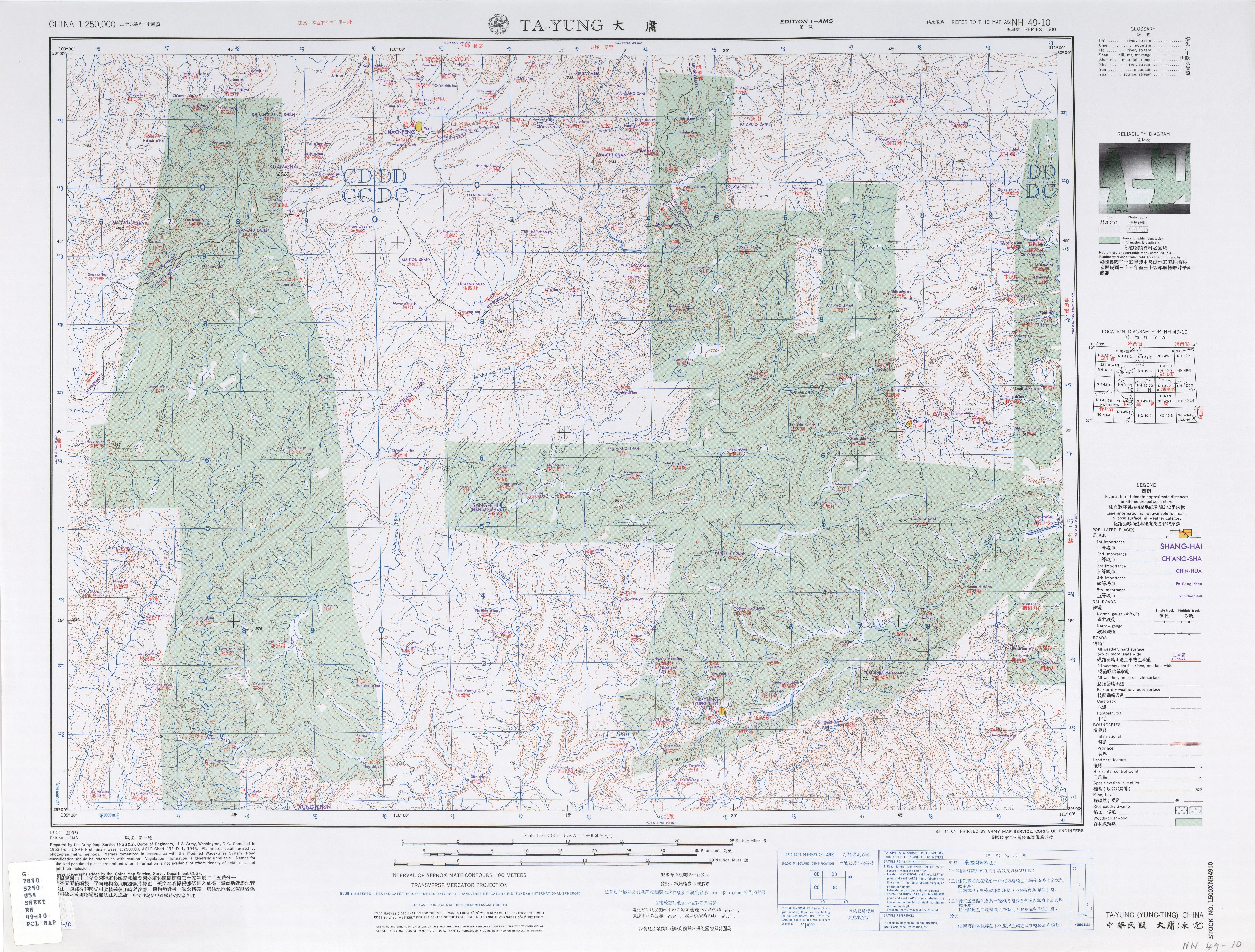 China AMS Topographic Maps